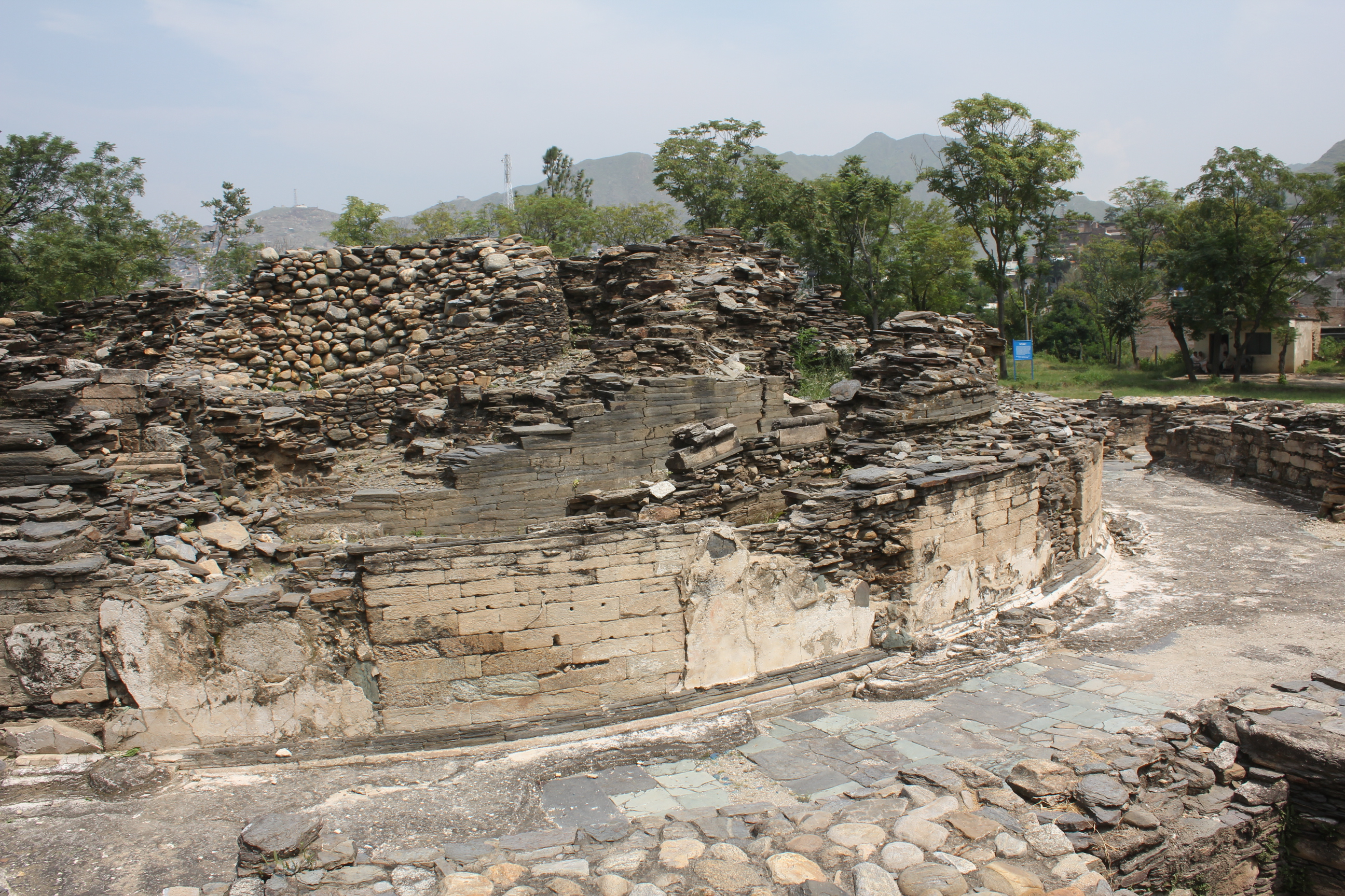 Butkara-I This is a photo of a monument in Pakistan identified as the KPK-65